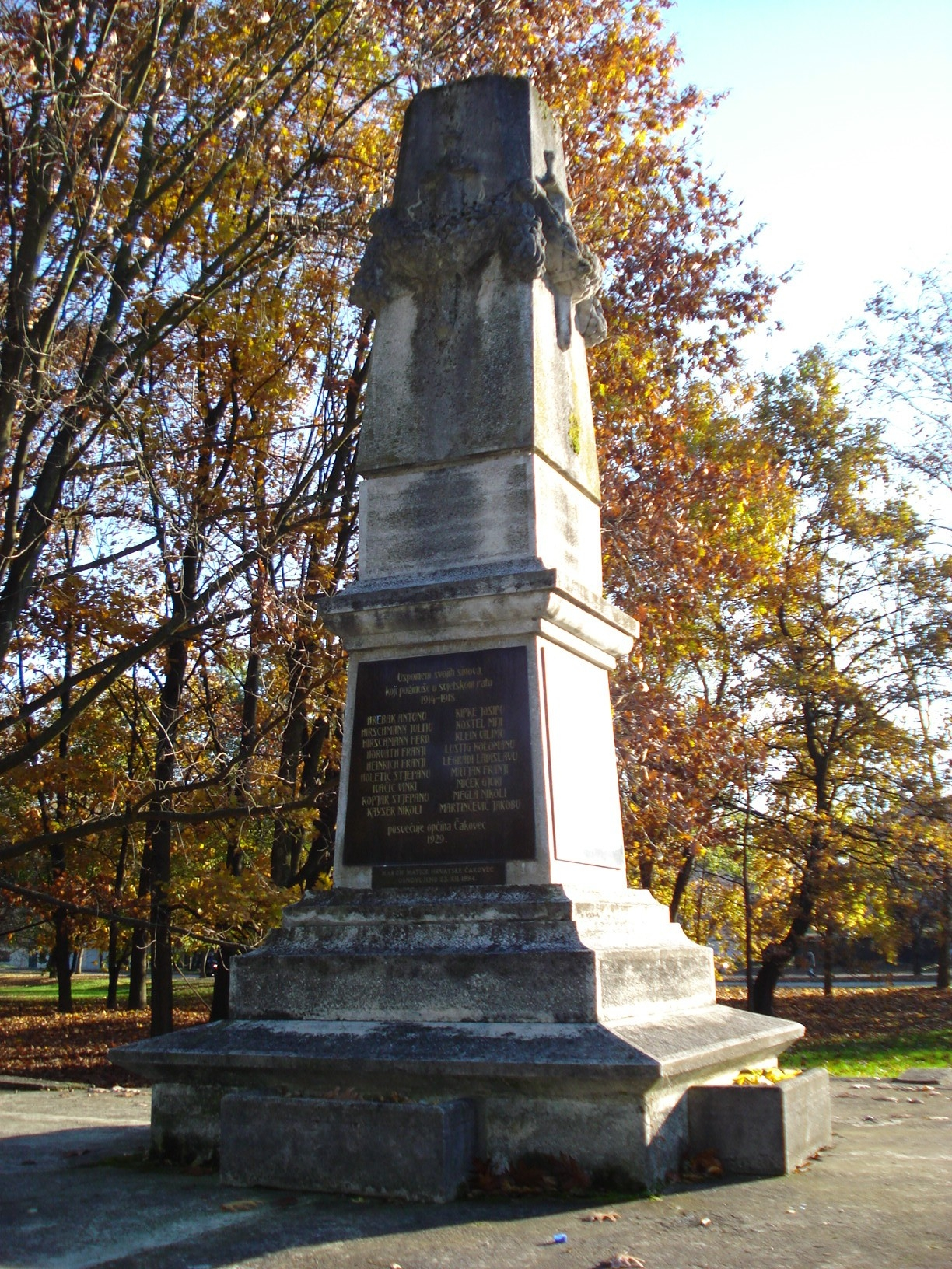 Zrinski park Čakovec (Croatia) - Memorial to fallen soldiers in World War I